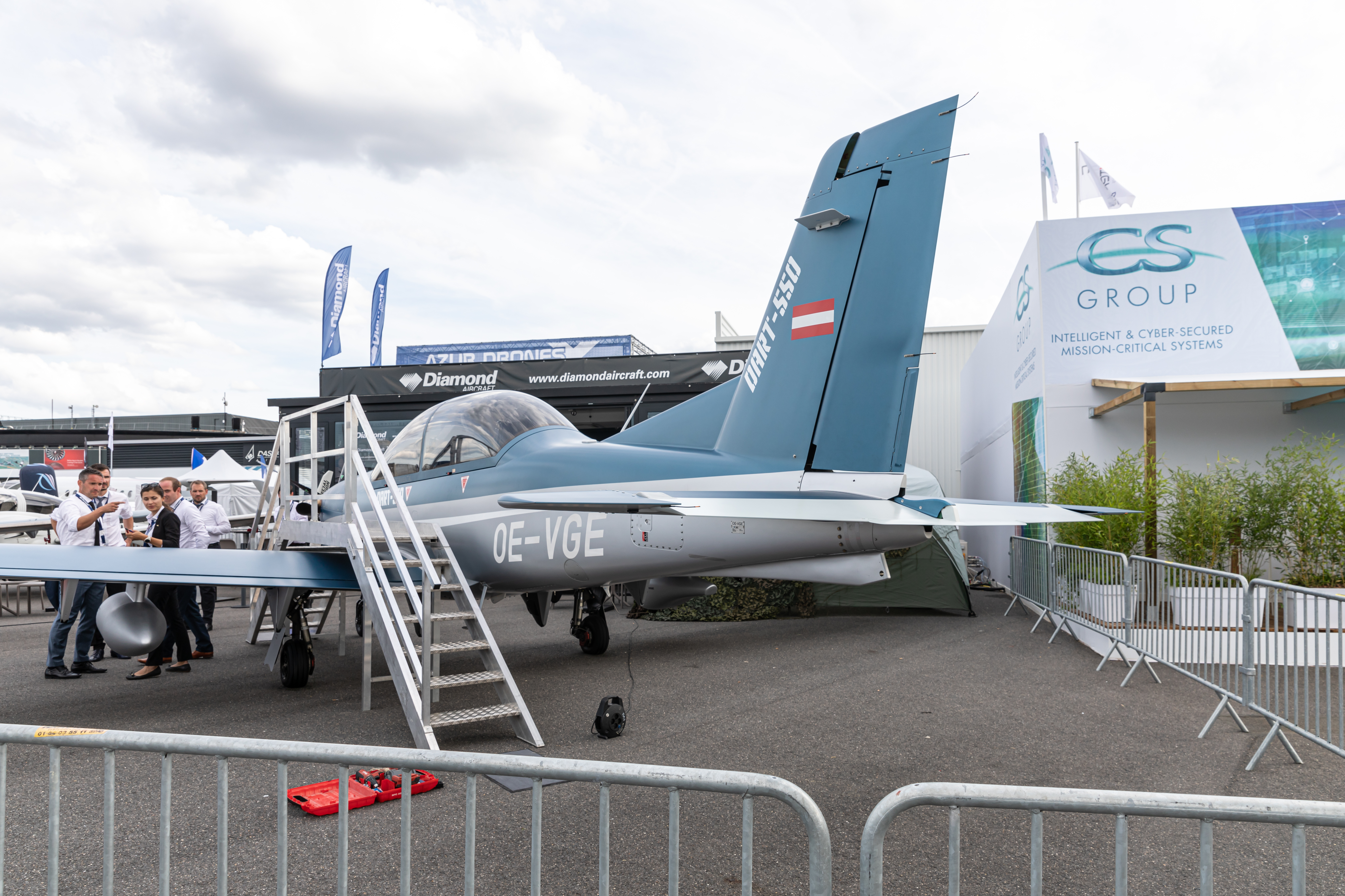 Paris Air Show 2019